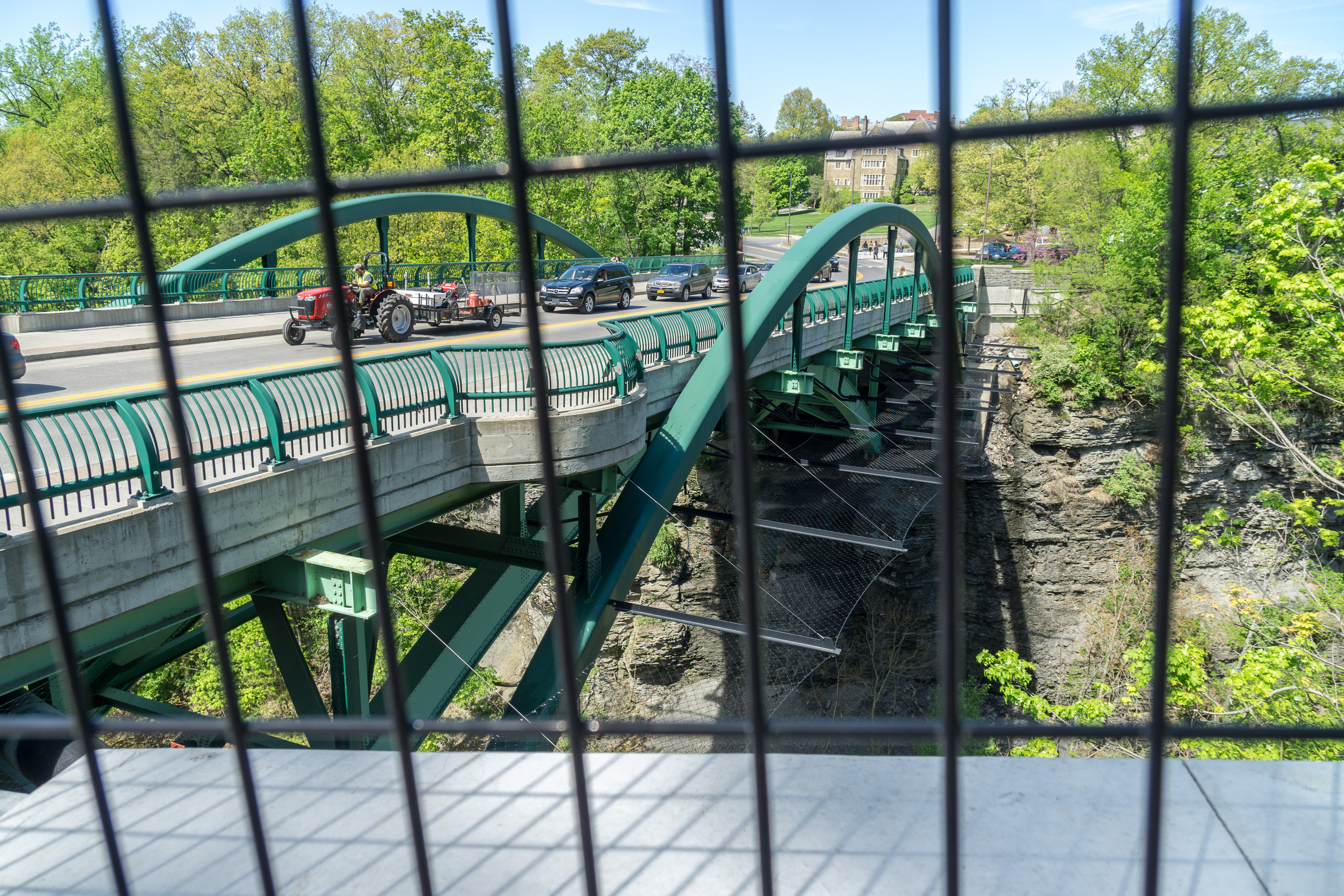 Thurston Avenue Bridge, showing suicide nets and fencing. Taken from the southeast corner of bridge, on Forest Home Drive, looking north. Cornell University, Ithaca, NY